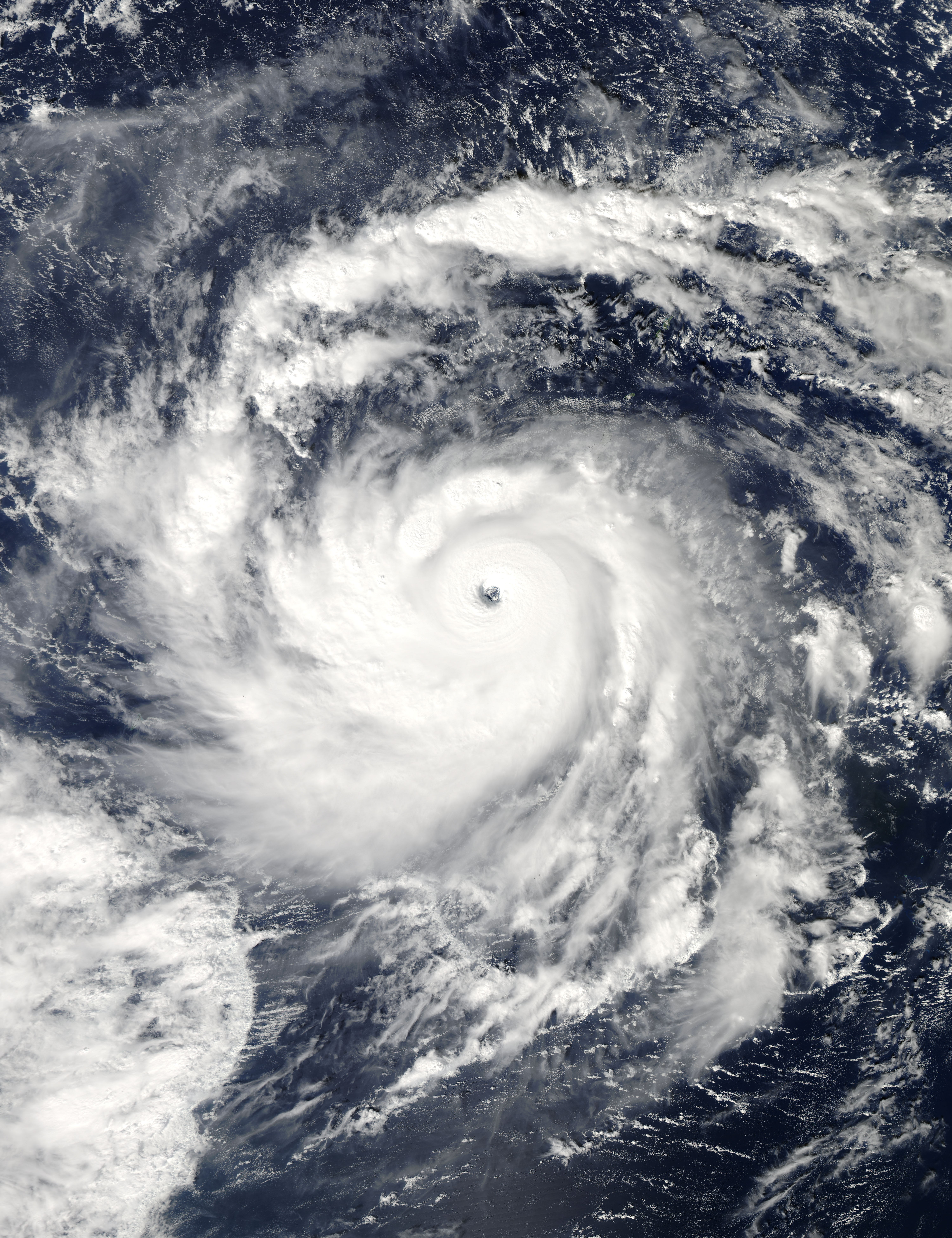 Super Typhoon Nida on November 25, 2009.